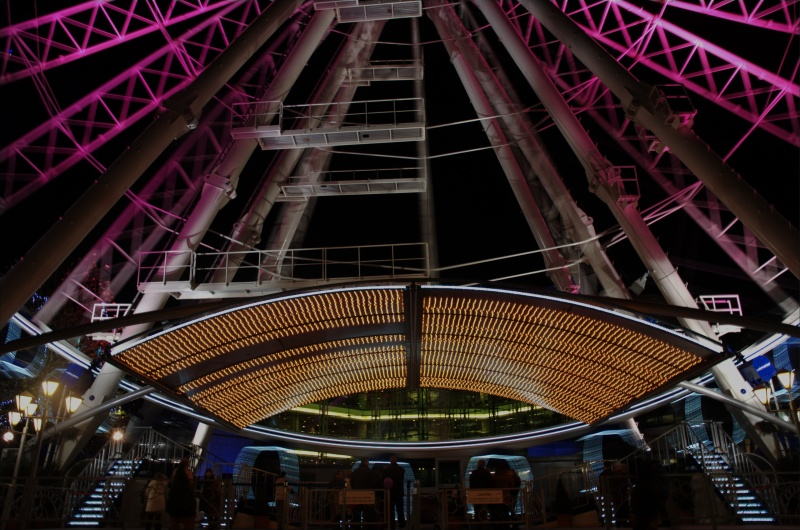 Birmingham wheel taken by OrangeJon You are welcome to use this photo for any purpose, but please credit me as " ". Contact me if you would like a larger version (6MP original).